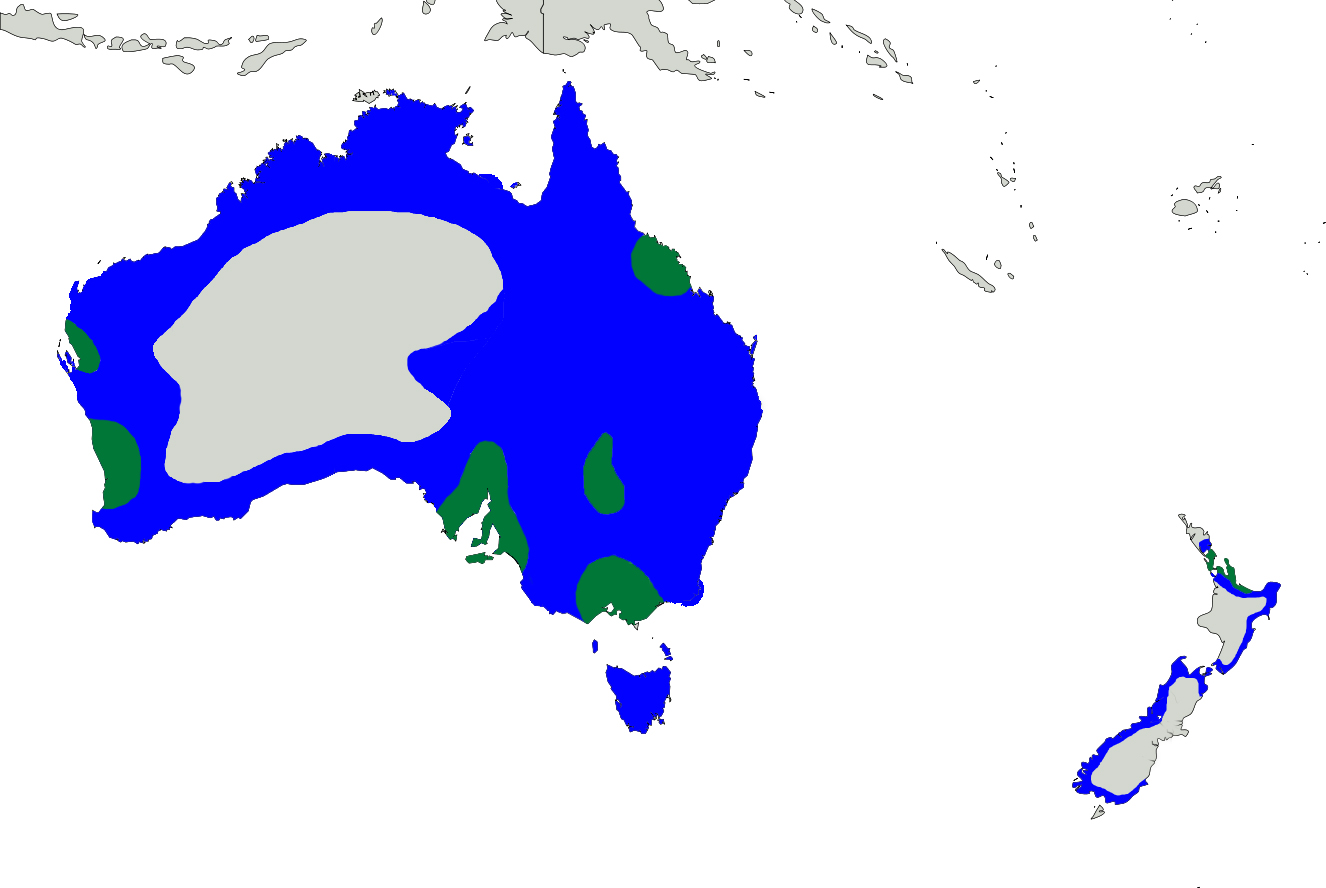 Range of Phalacrocorax varius